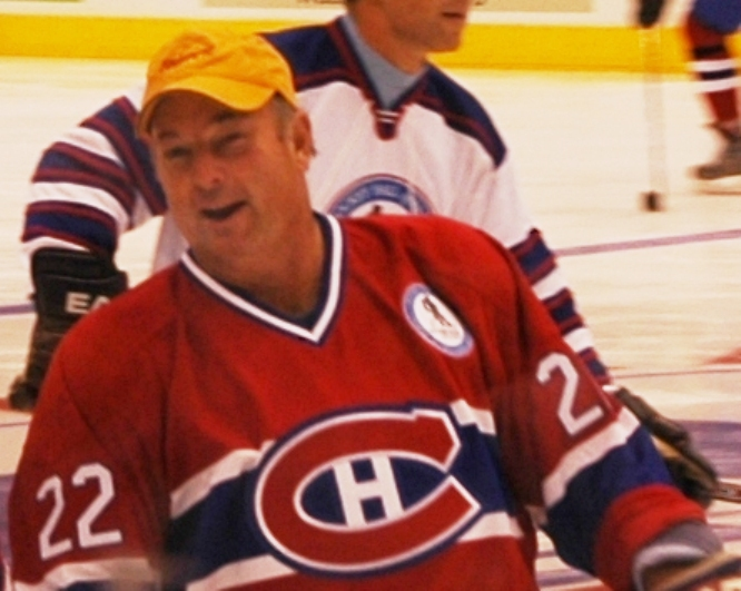 Steve Shutt played with Montreal Canadiens Alumni at the Legends Clasic in Toronto